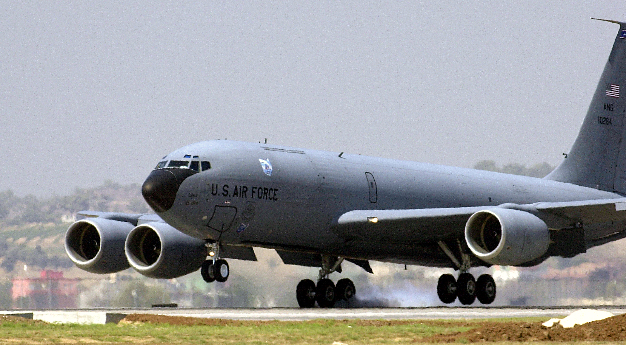 A U.S. Air Force Boeing KC-135R Stratotanker from the Ohio Air National Guard's 121st Air Refueling Wing at Rickenbacker International Airport, Ohio, touches down on the flightline at Incirlik, Turkey. U.S. officials were sending four KC-135 Stratotanker aircraft and six aircrews to provide air-refueling support for operations Enduring Freedom and Iraqi Freedom.